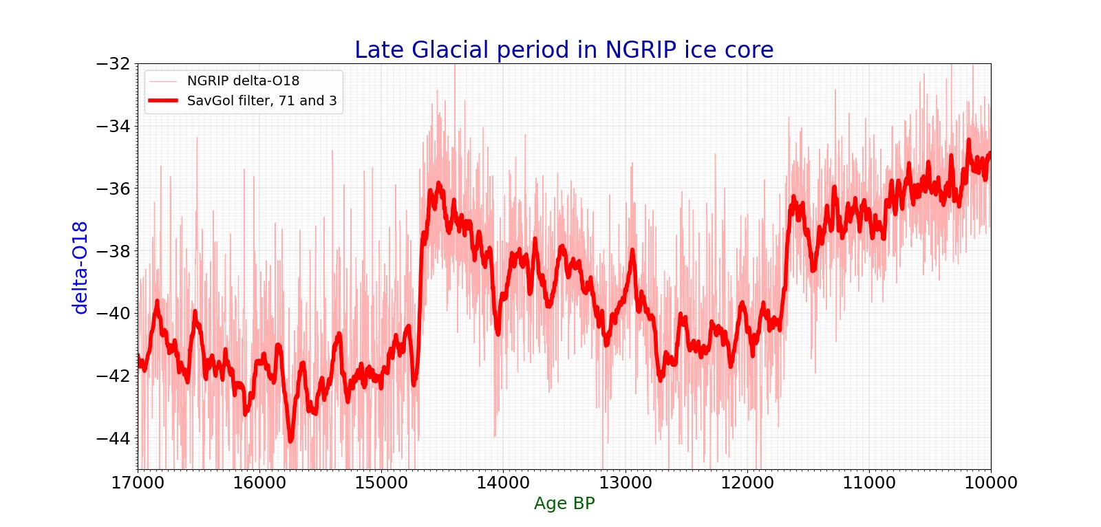 Temperature curve of late glacial period, from NGRIP greenland ice core oxygen isotope ratio. Numbers thousands of years ago, time goes from right to left, up is warmer, down is colder. The periot spans from Lascaux interstadial to Heinrich event H1, and to Meiendorf/Bölling warm stage, and Allegöd warm stage, to Younger dryas and early holocene.